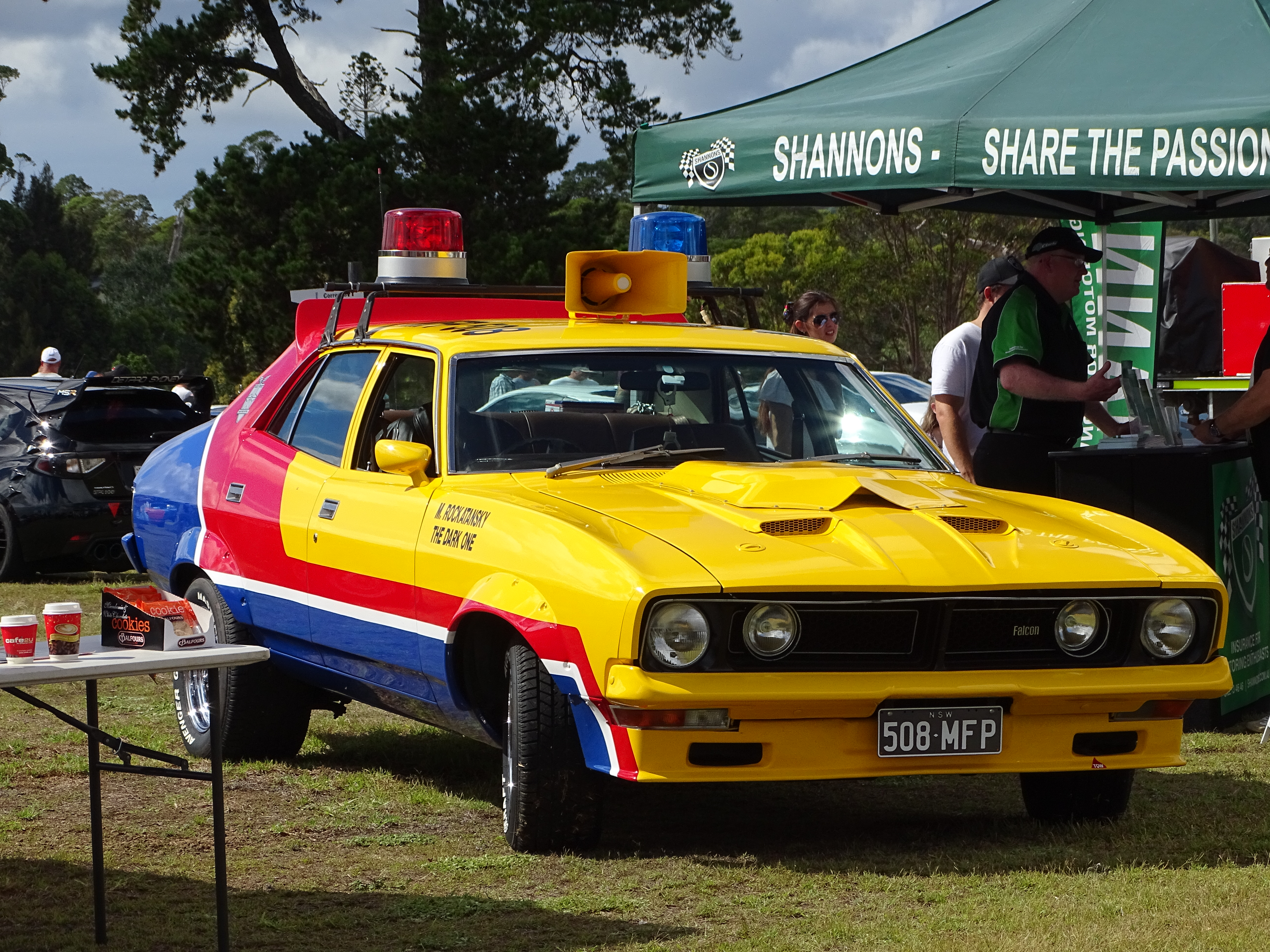 Ford Falcon 'Mad Max Interceptor'